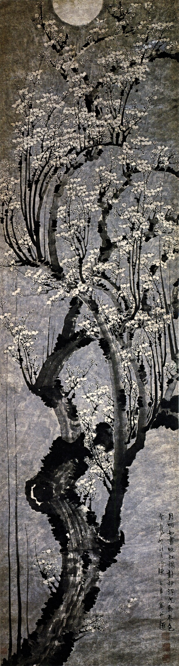 Plum Blossoms, hanging scroll, ink on paper, 222.5 x 57.6 cm. Located at the Tianjin Fine Art Museum.